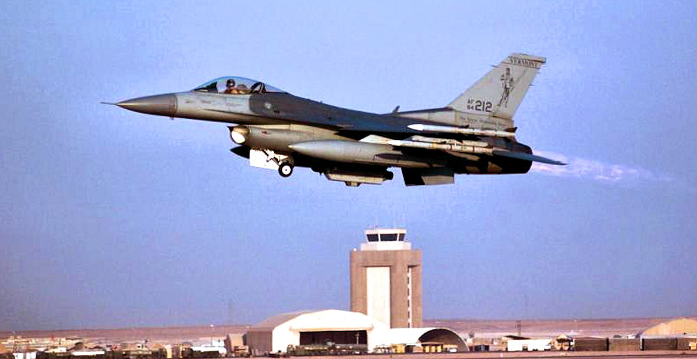 USAF F-16C block 25 #84-1212 from the 134th FS takes off at Prince Sultan AB, Saudi Arabia, during Operation SOUTHERN WATCH. The Aircraft is part of the coalition forces of the 363rd Air Expeditionary Wing, that enforces the no-fly and no-drive zone in Southern Iraq to protect and defend against Iraqi aggression here on October 24th, 2000. [USAF photo by SSgt Sean M. Worrell] reported as going to AMARC as FG0560 Jun 26, 2007 and still on AMARC inventory Jan 15, 2008